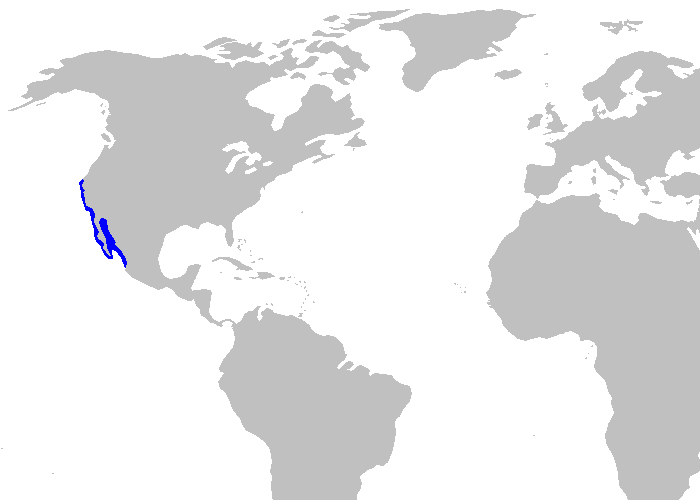 Distribution map for Heterodontus francisci